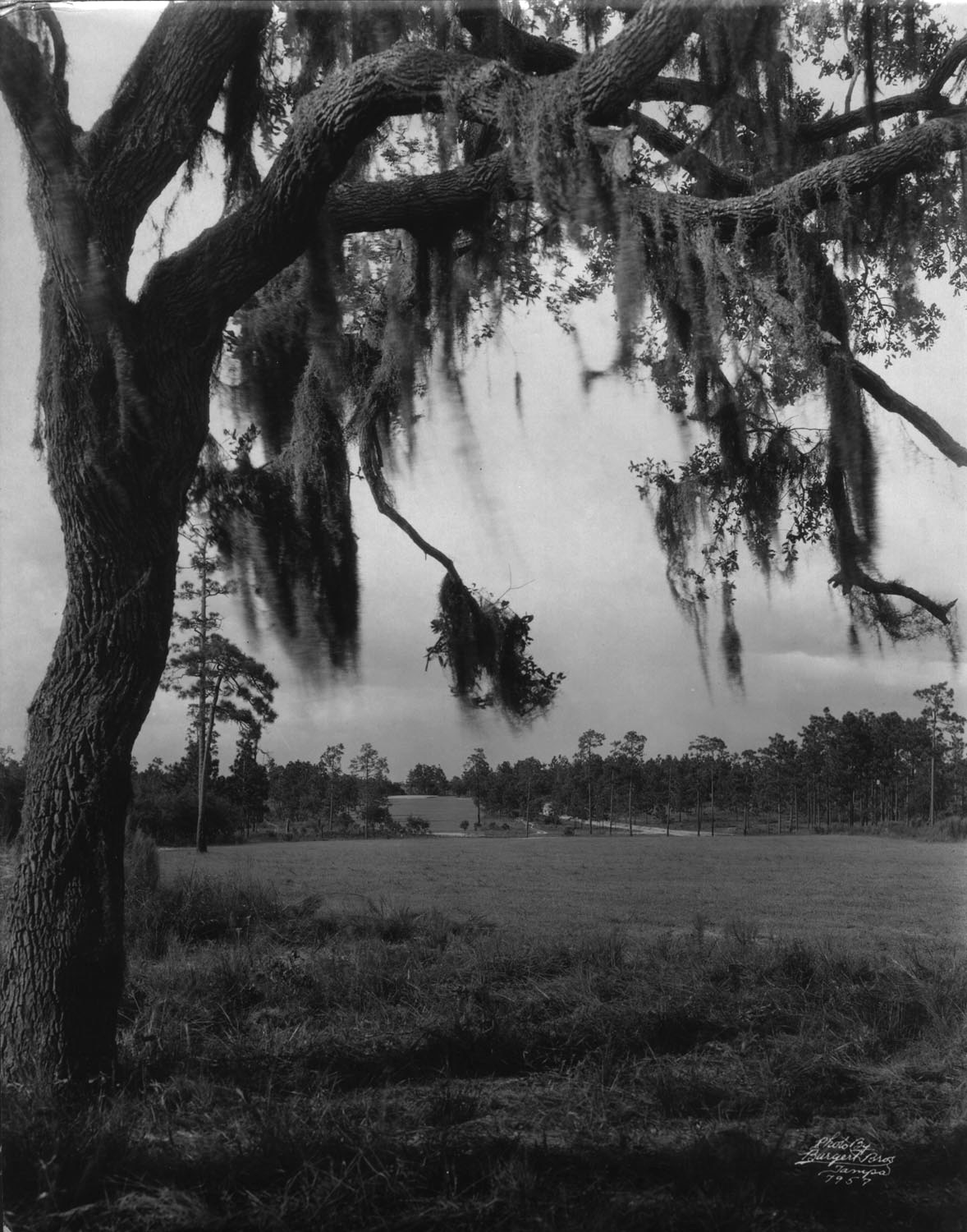 A 1921 photograph of Temple Terrace showing the rolling terrain. This view is north from the tenth hole of the Temple Terrace Golf and Country Club